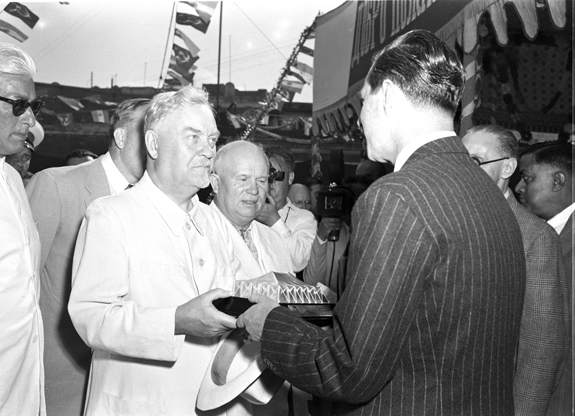 N. Bulganin and N. Krushchev receiving souvernirs during their visit to a jute mill in Calcutta in November 1955. The Soviet leaders were on a state visit to India.